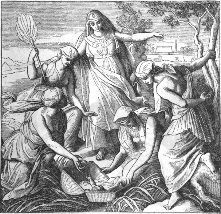 The daughter of Pharaoh finds Moses.